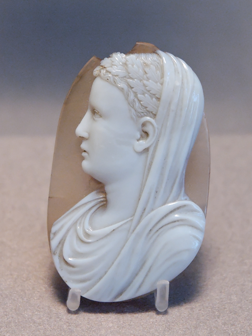 Veiled prince crowned with foliage. Sardonyx cameo, France (?), 14th century. From a cameo cross Jean of Berry commissioned from Hermann Ruissel for the Sainte Chapelle in Bourges ca 1416.